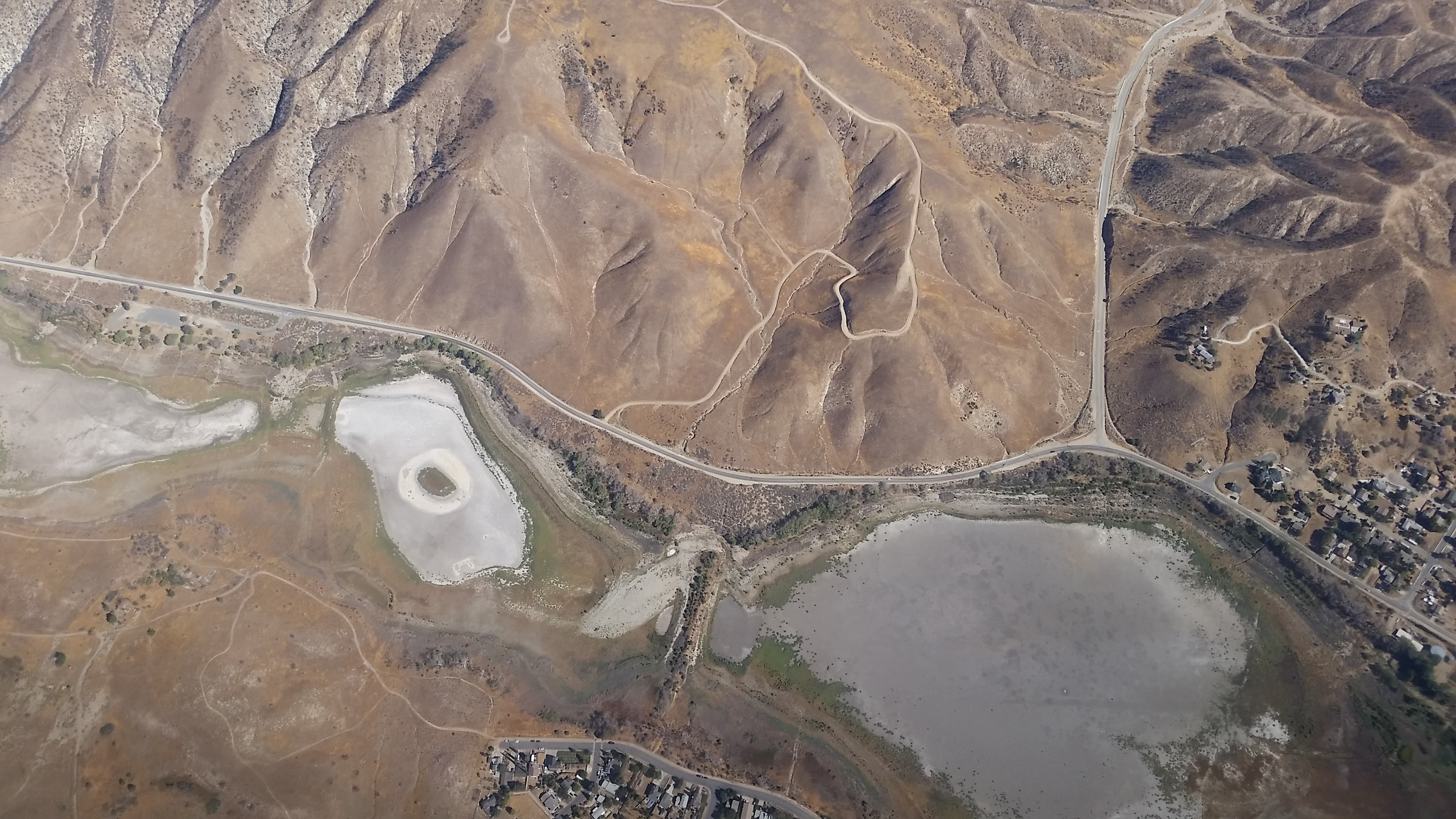 Lake Elizabeth is dry after years of drought.